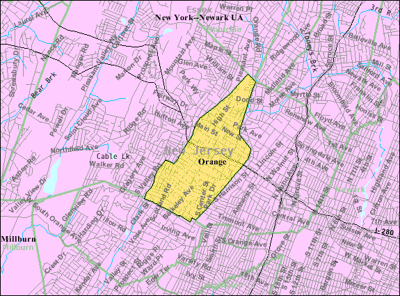 Census Bureau map of Orange